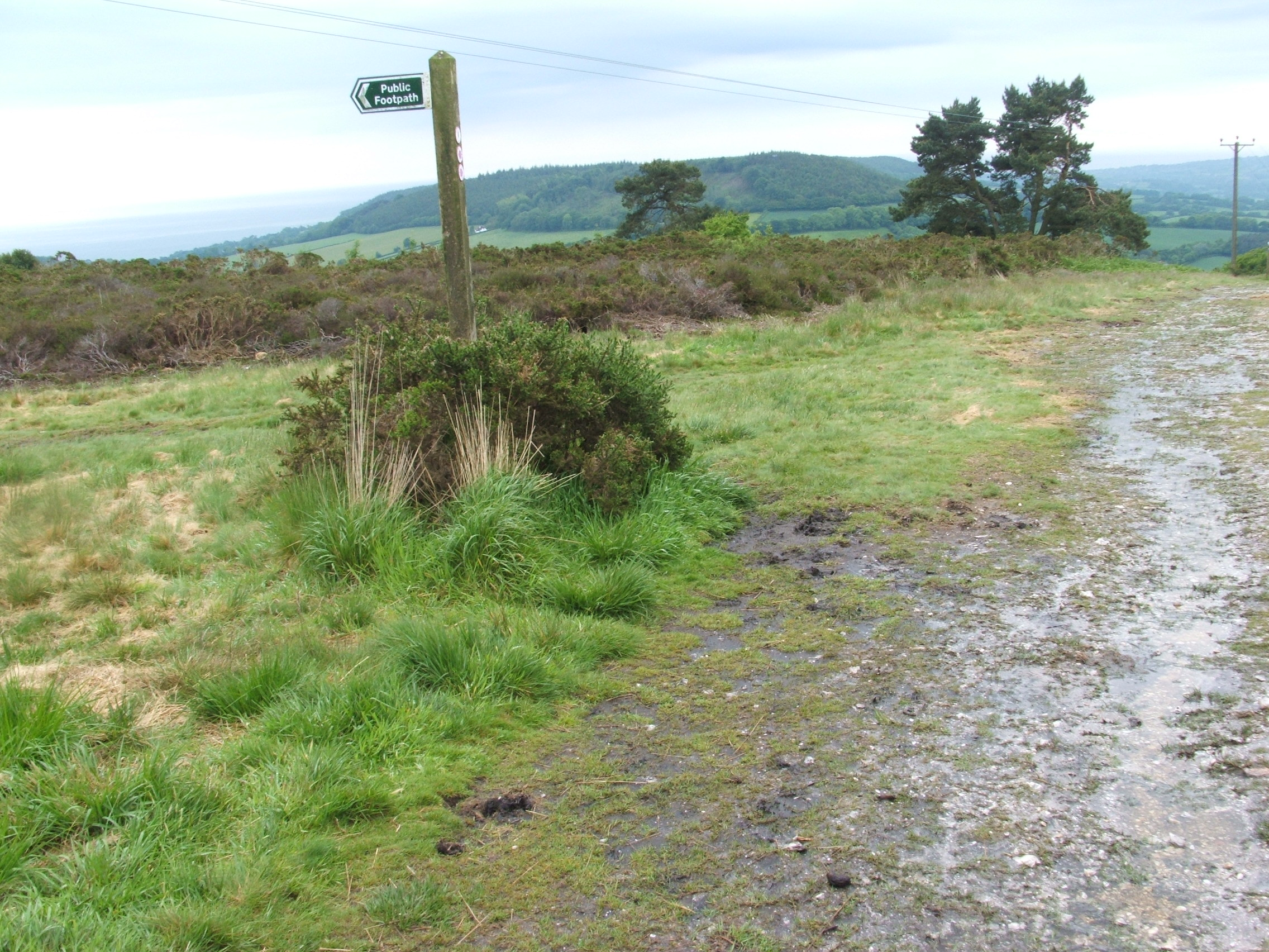 Showing the Exe Valley Way footpath heading south across Fire Beacon Hill with another footpath going east (left in this picture)